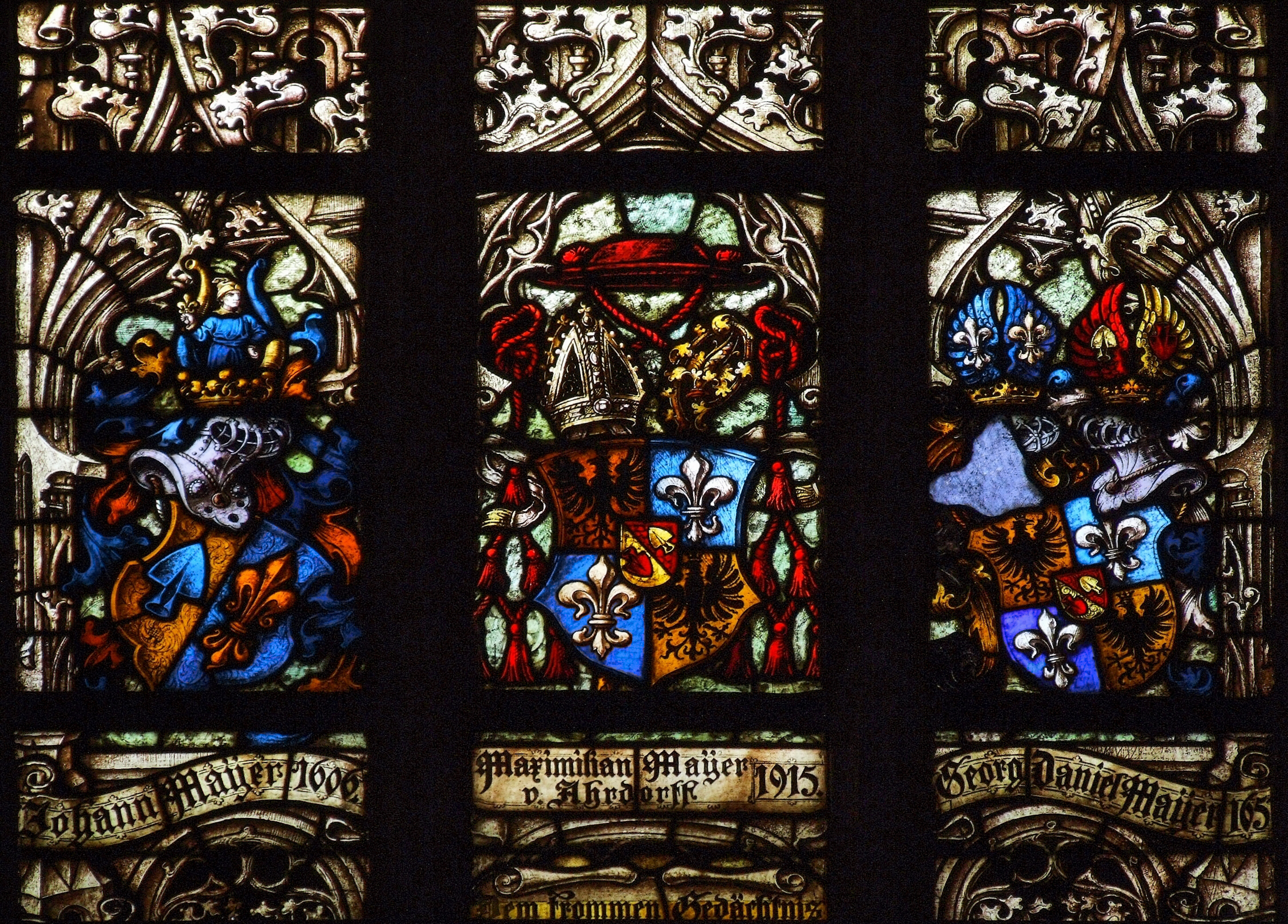 Part of stained glass in Saint Maurice church, Olomouc (Olmütz), Moravia